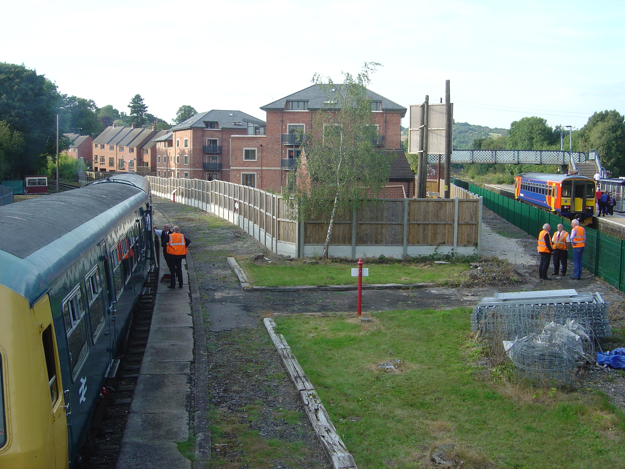 A view of Duffield station in 2009 showing both the mainline platforms and the branch platform for Wirksworth